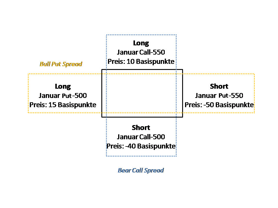 Short Box Spread